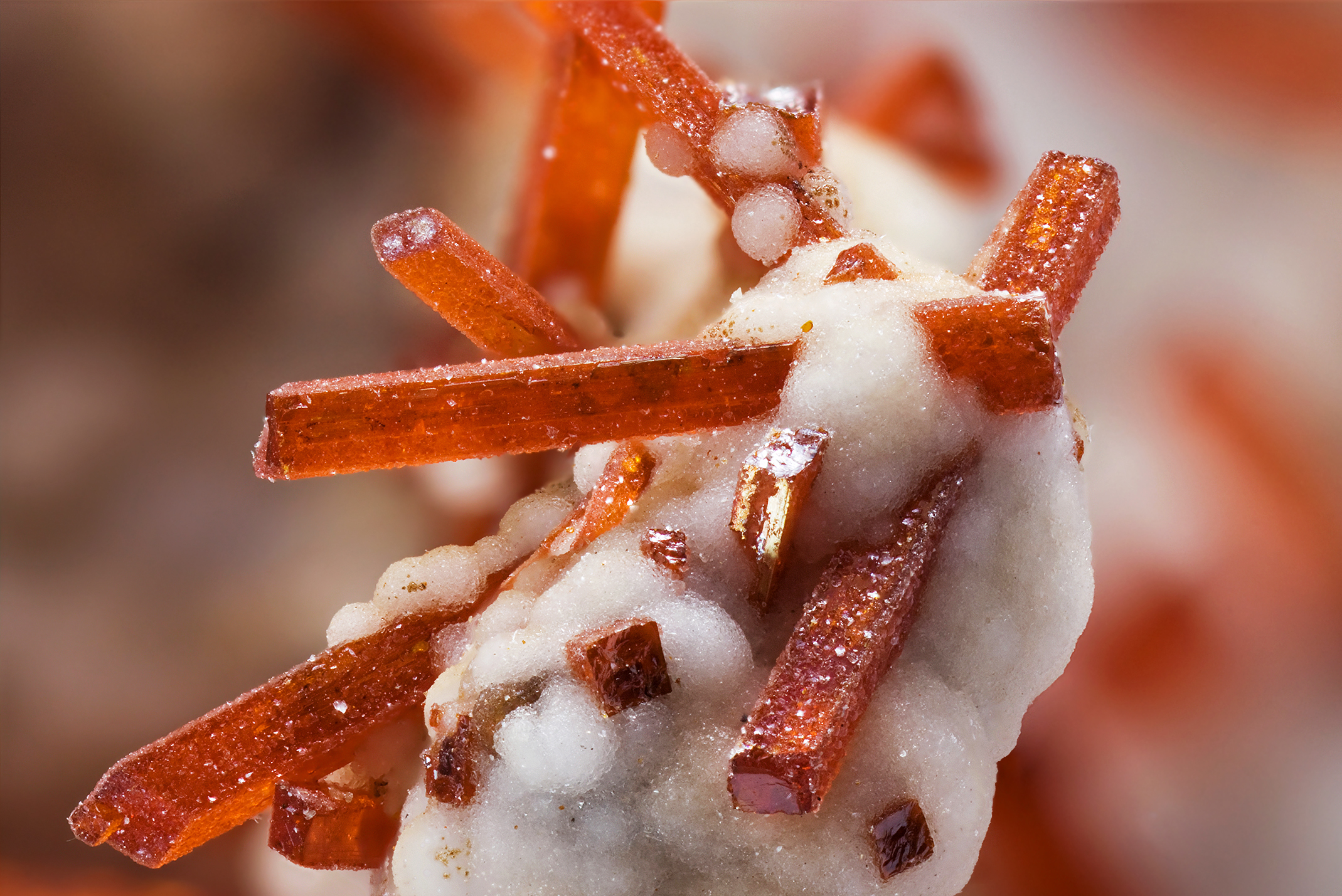 Dundasite (white) and Crocoite (red orange) from Dundas, Tasmania.